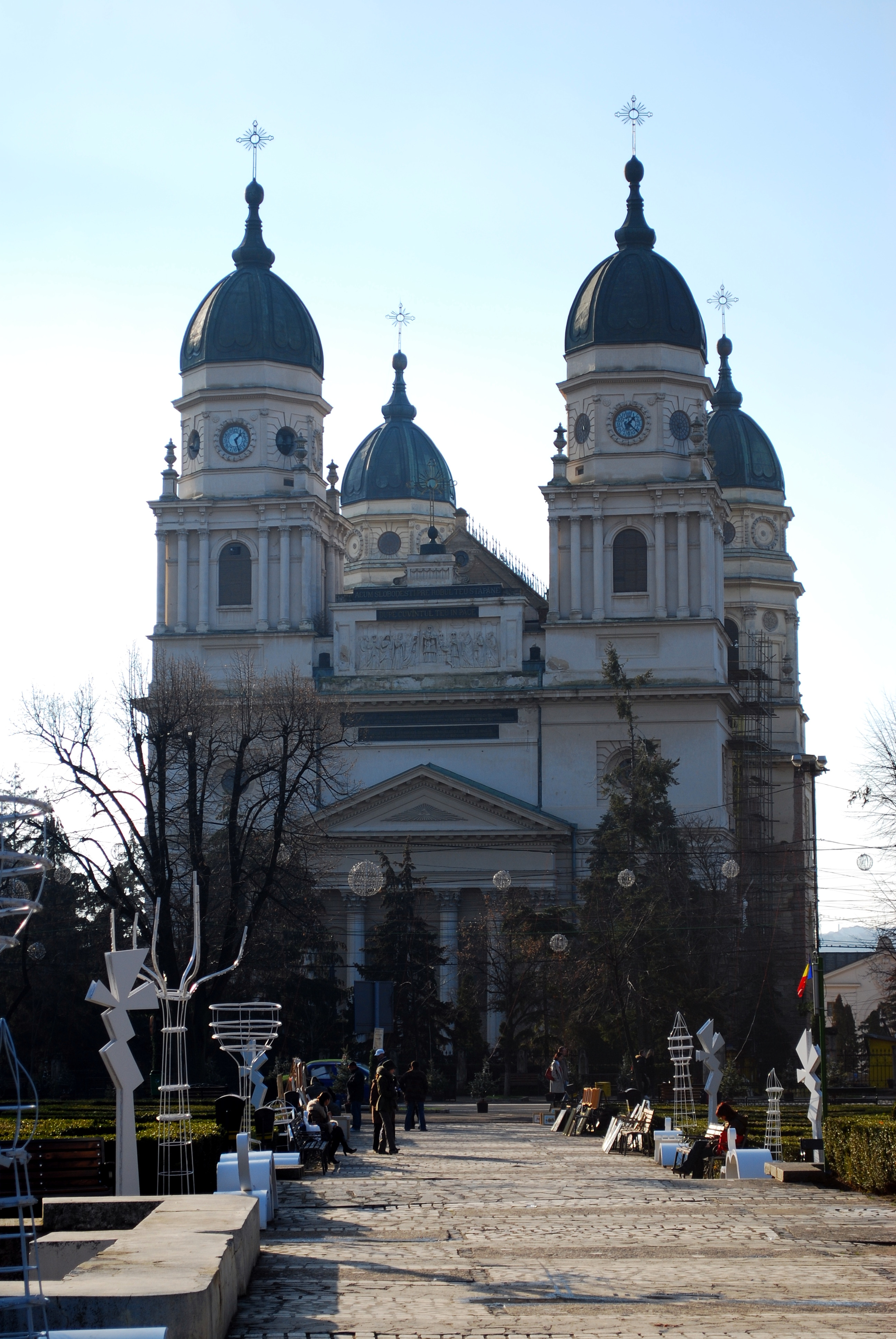 The Romanian Orthodox metropolitan cathedral in Iaşi, Romania